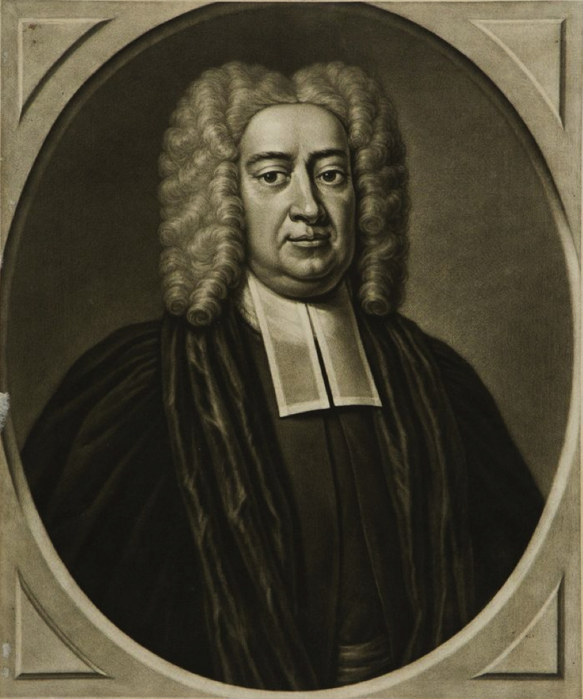 Print of Timothy Cutler